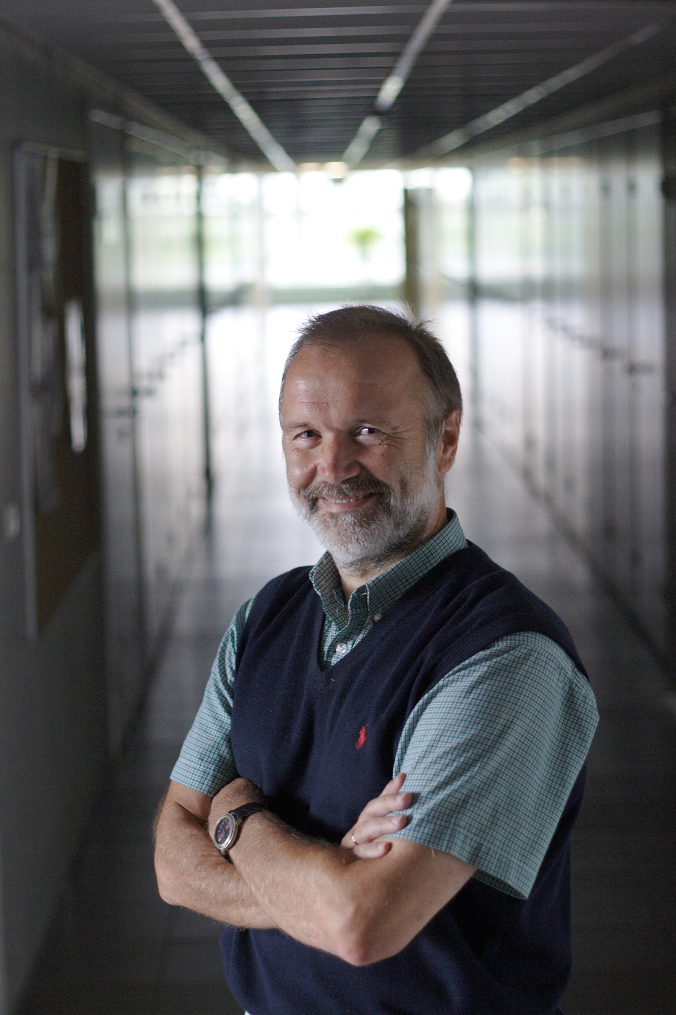 Picture shows physicist Arvi Freiberg Tartu, Institute of Physics.